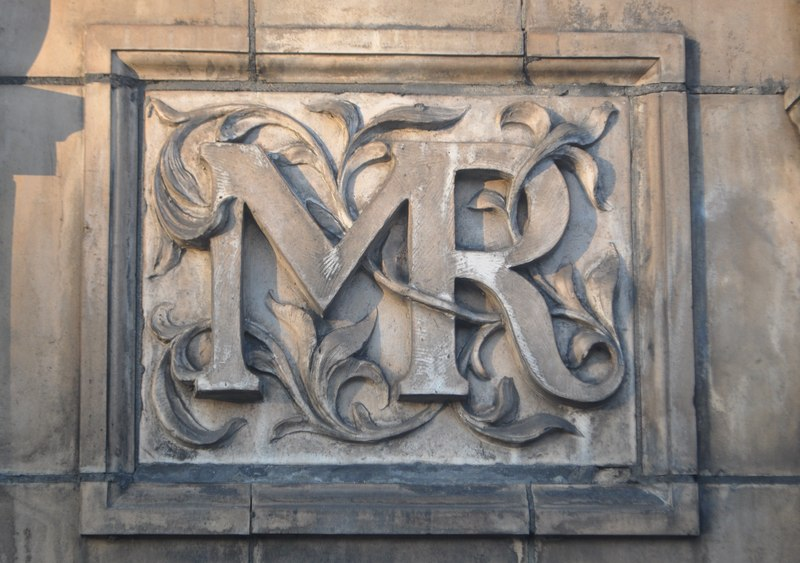 Midland Railway, near to Leicester, Great Britain. Seen on London Road bridge, opposite the railway station. SK5904 : Leicester London Road Railway Station